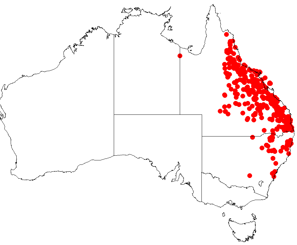 Parsonsia lanceolata Occurrence data for Australia from Australasian Virtual Herbarium downloaded 22 December 2018